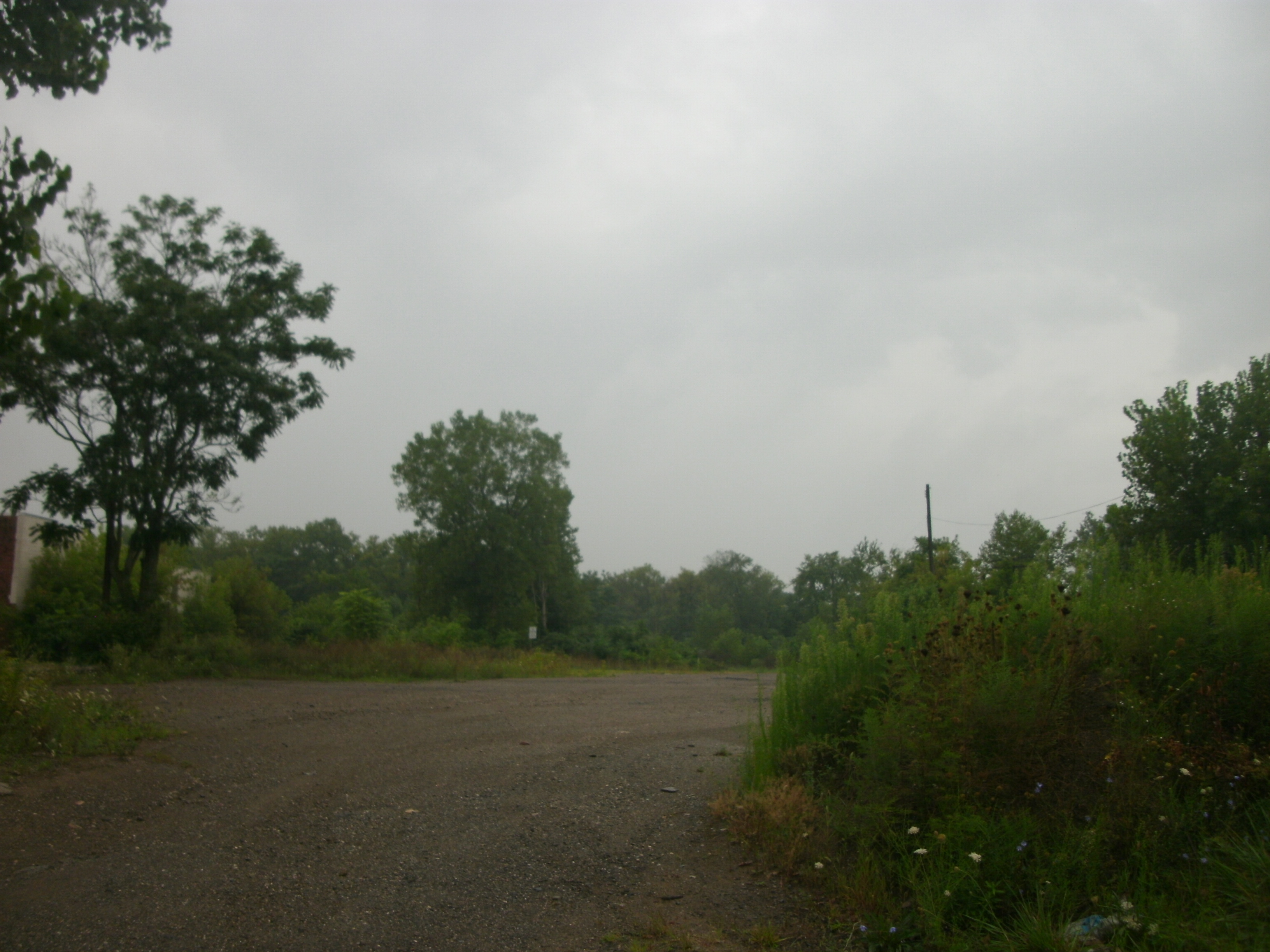 The station at Warren, Ohio once used by the Erie Railroad until 1966.